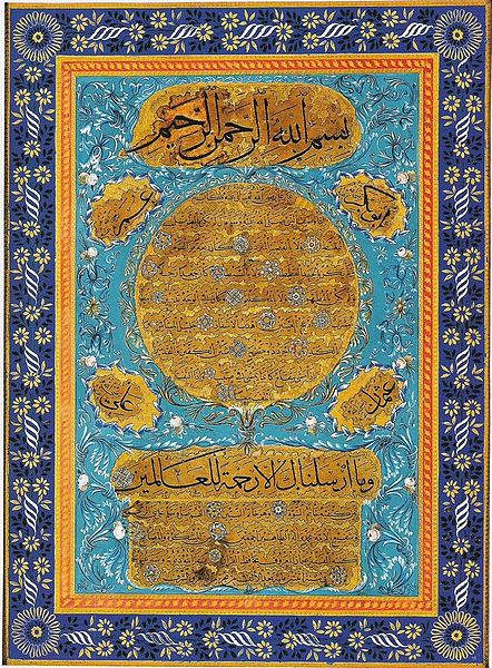 Hilye (Hilya) – Ottoman calligraphy panel; the text describes the physical appearance of the Islamic prophet Muhammad